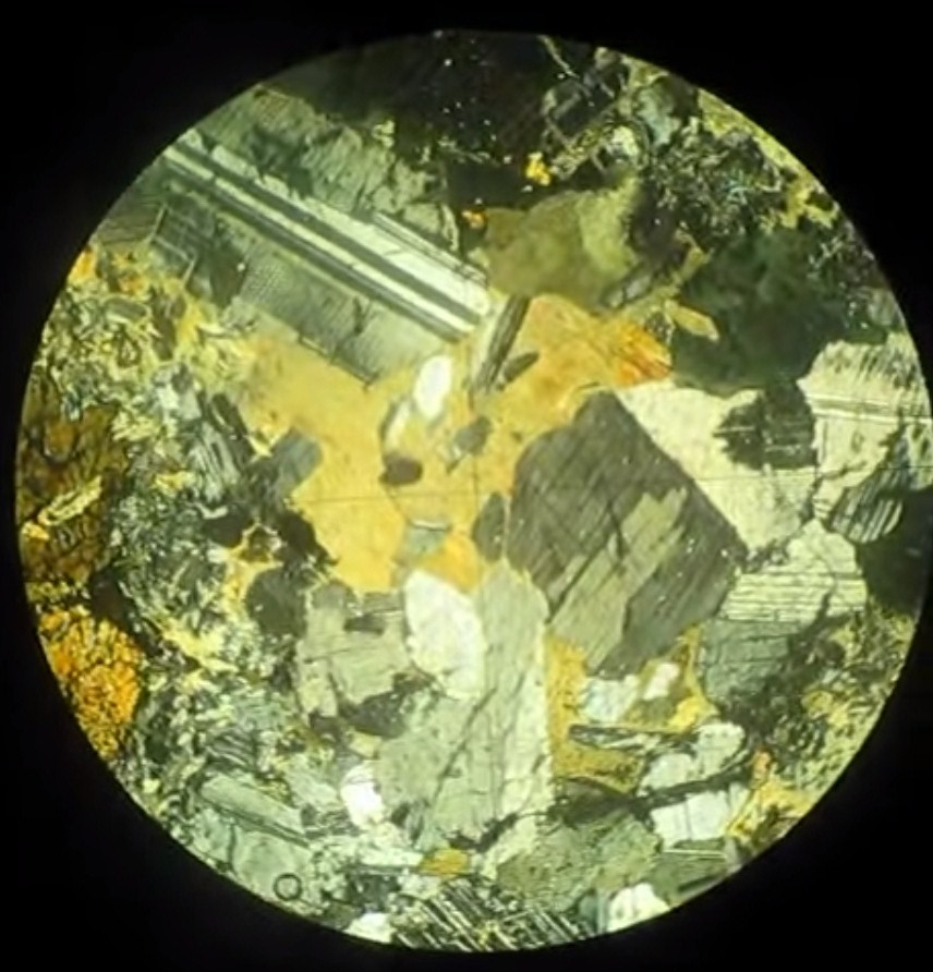 Microscopic image of Hornblende and Plagioclase under polarized light